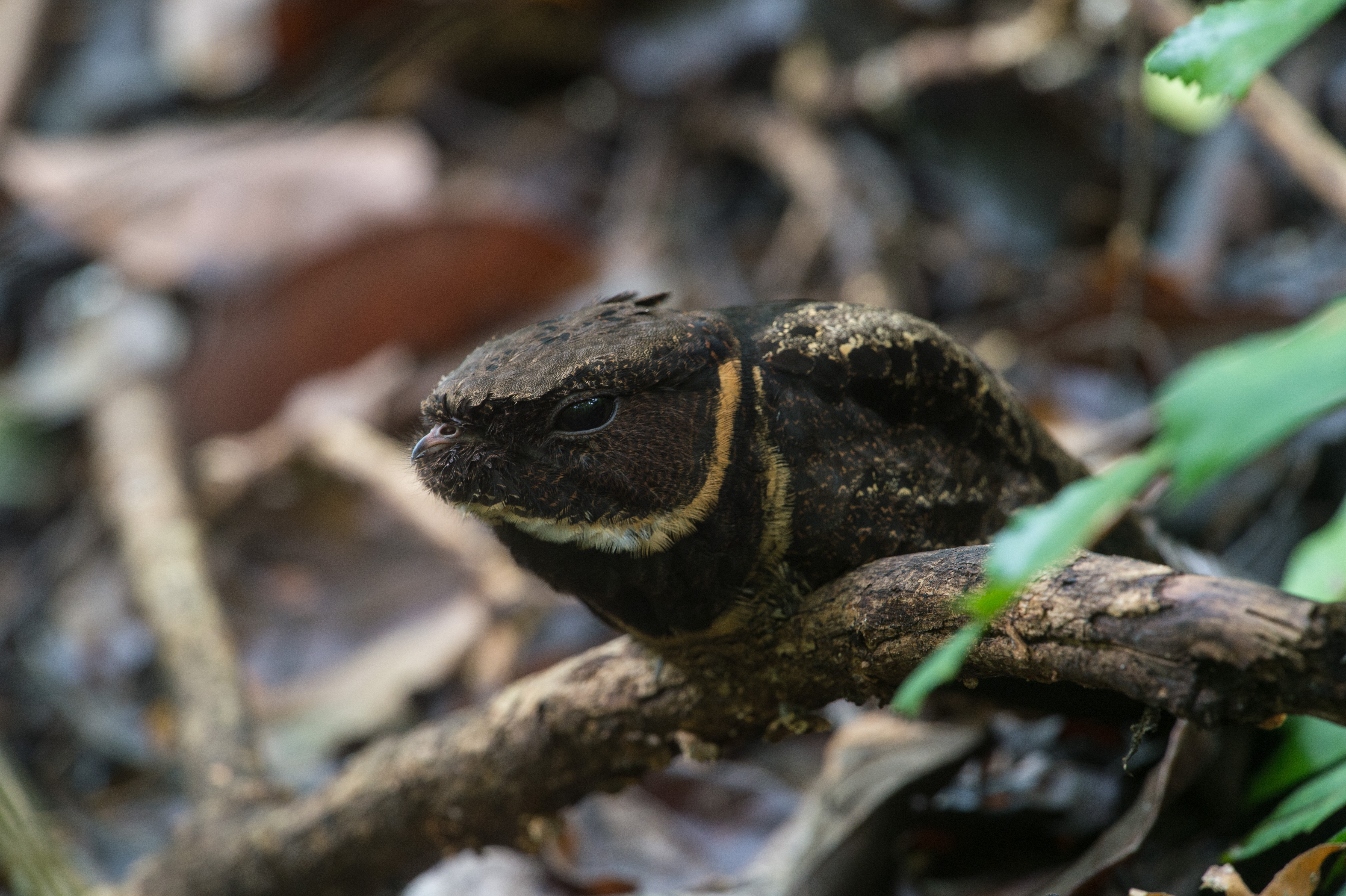 A Great Eared Nightjar at Tonkoko Park, North Sulawesi, Indonesia.